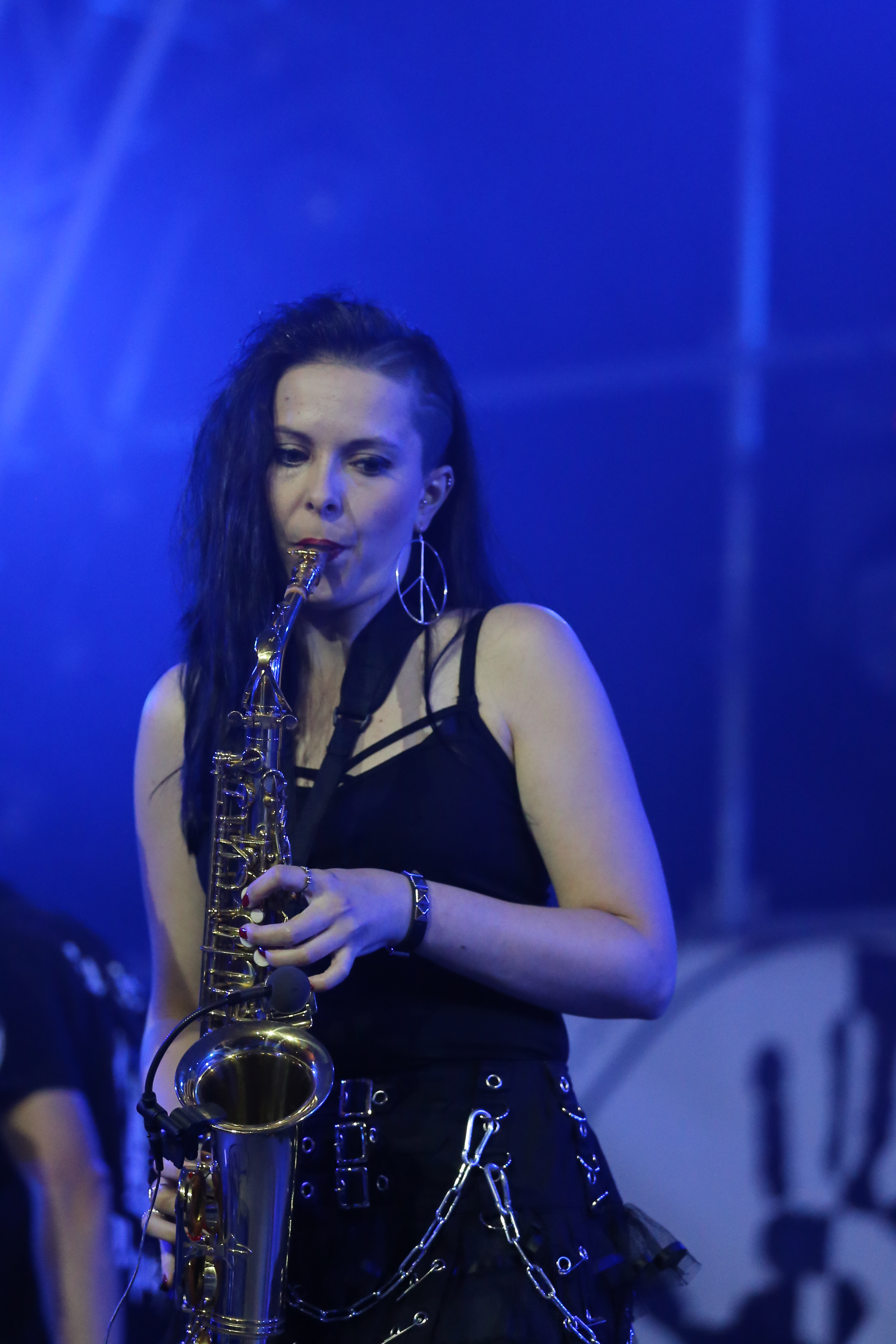 Przystanek Woodstock in 2017.